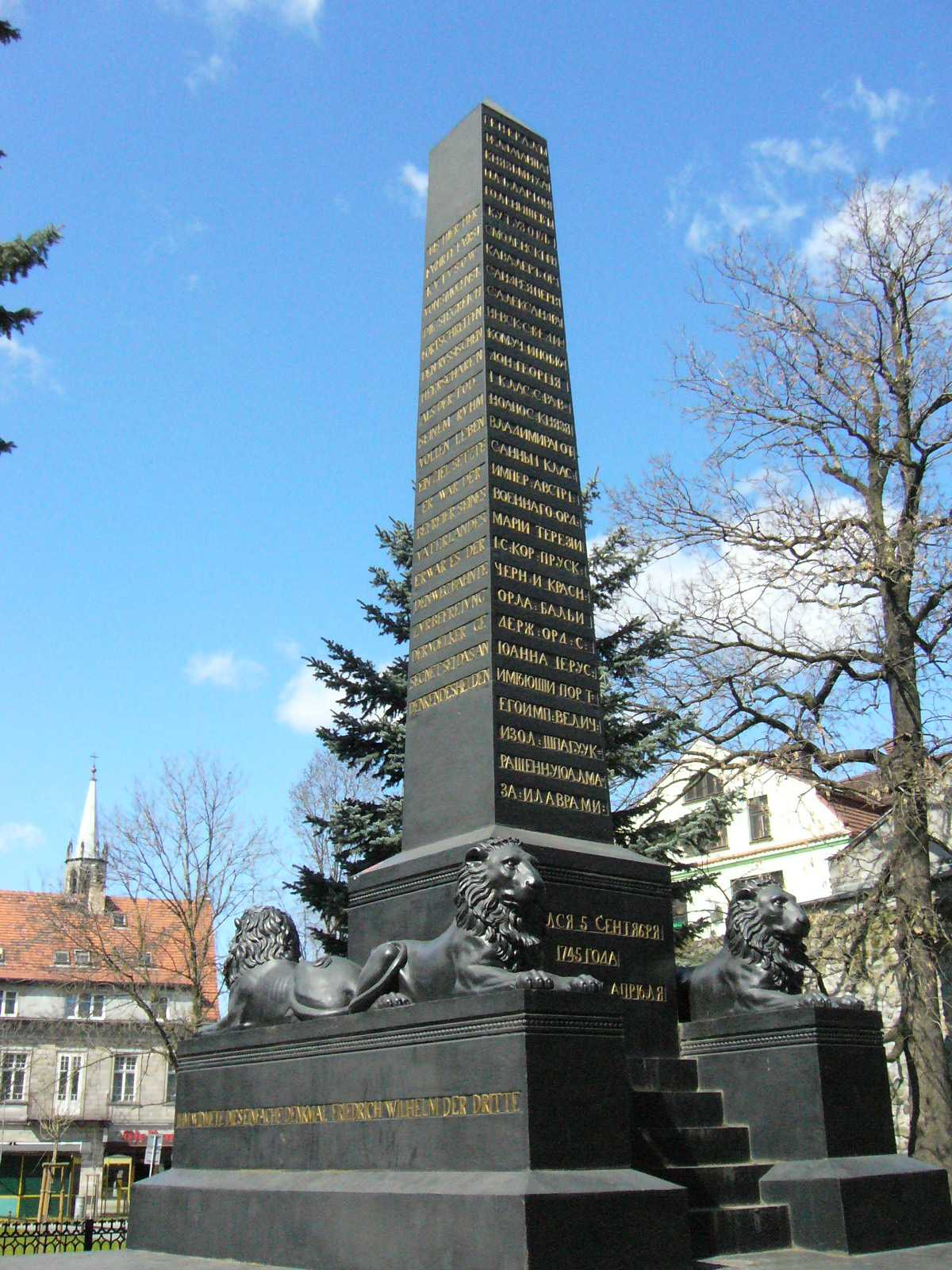 Bolesławiec is a city in Poland. Monument of Kutuzow.